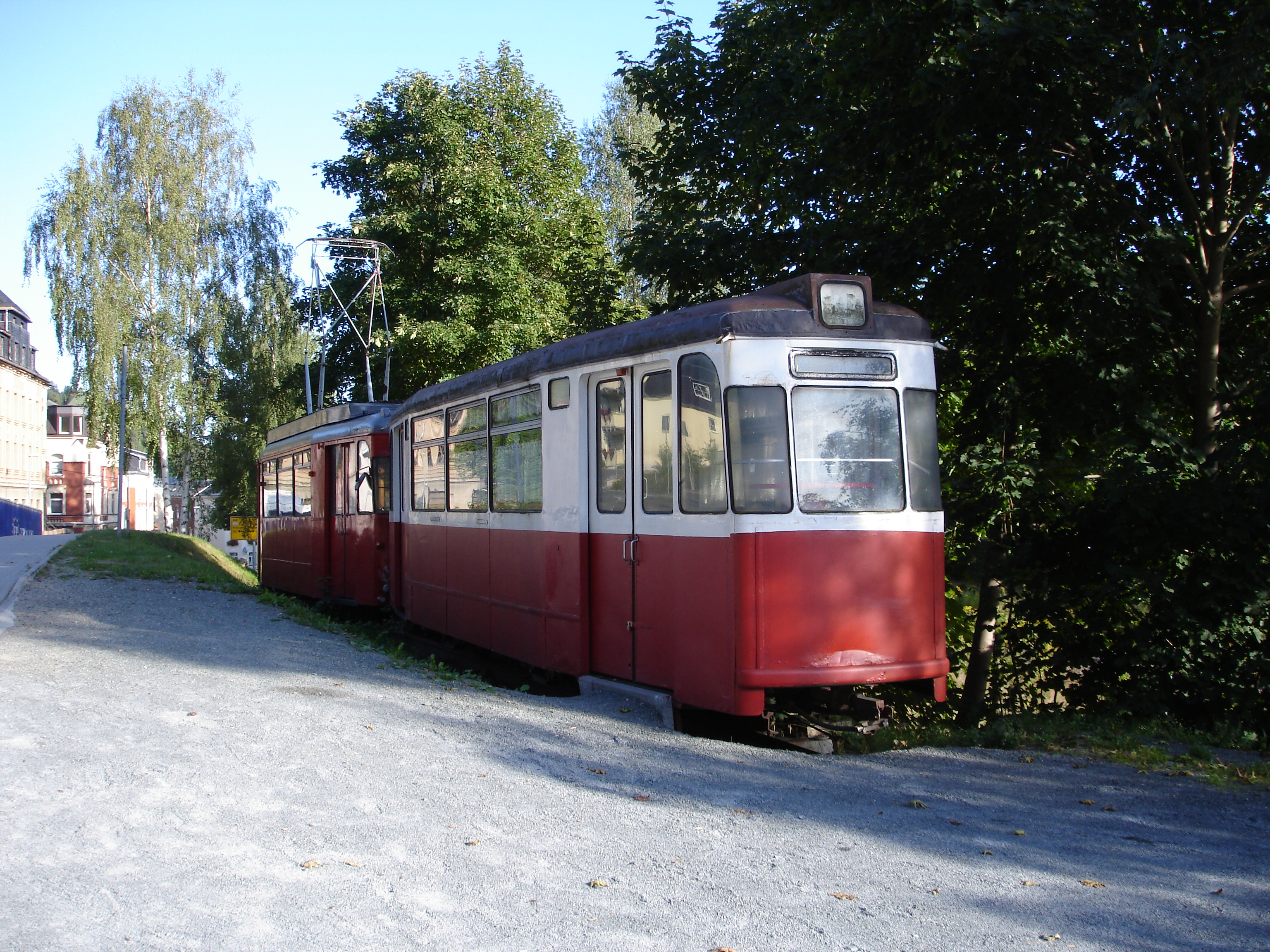 station Klingenthal, Saxony, Germany